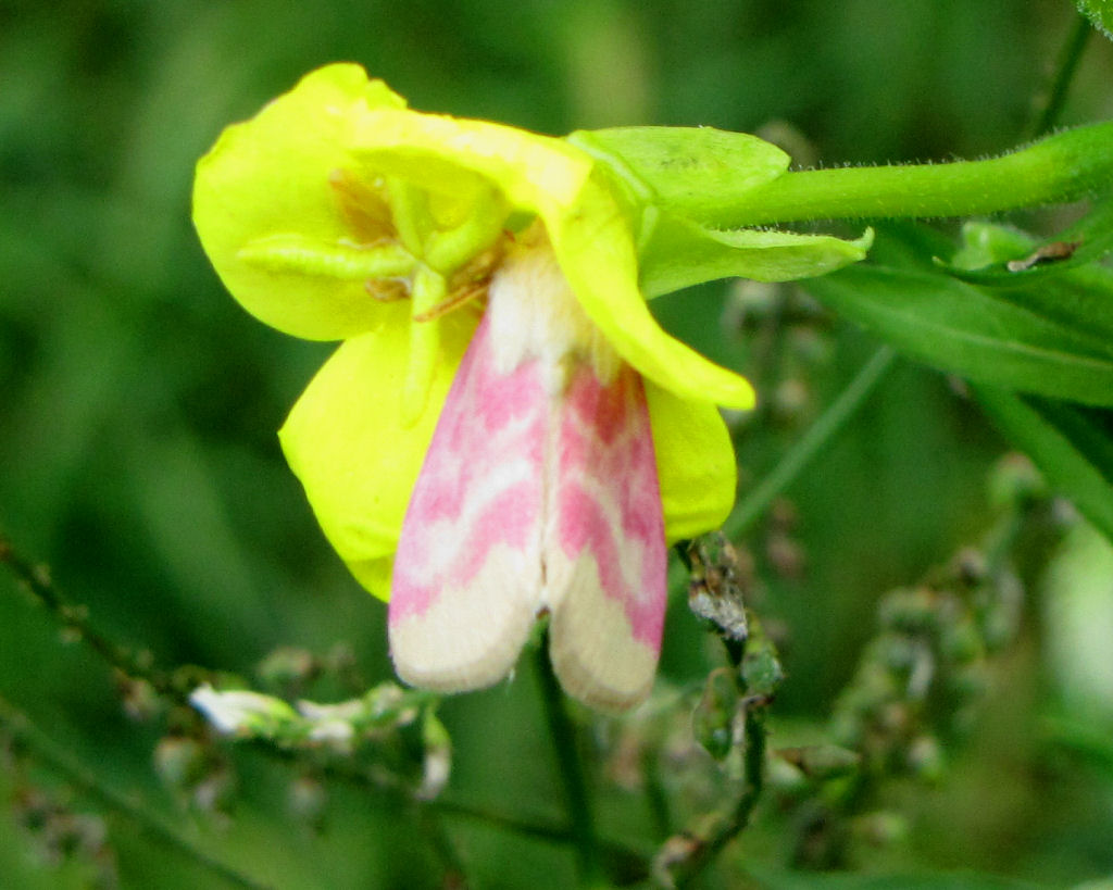 Primrose Moth (Schinia florida) on Evening-primrose, Mer Bleue Conservation Area, Ottawa, Ontario